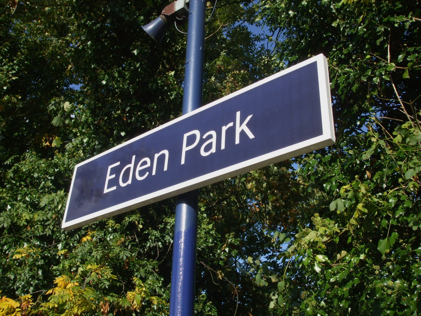 Eden Park station platform signage, in Southeastern colours